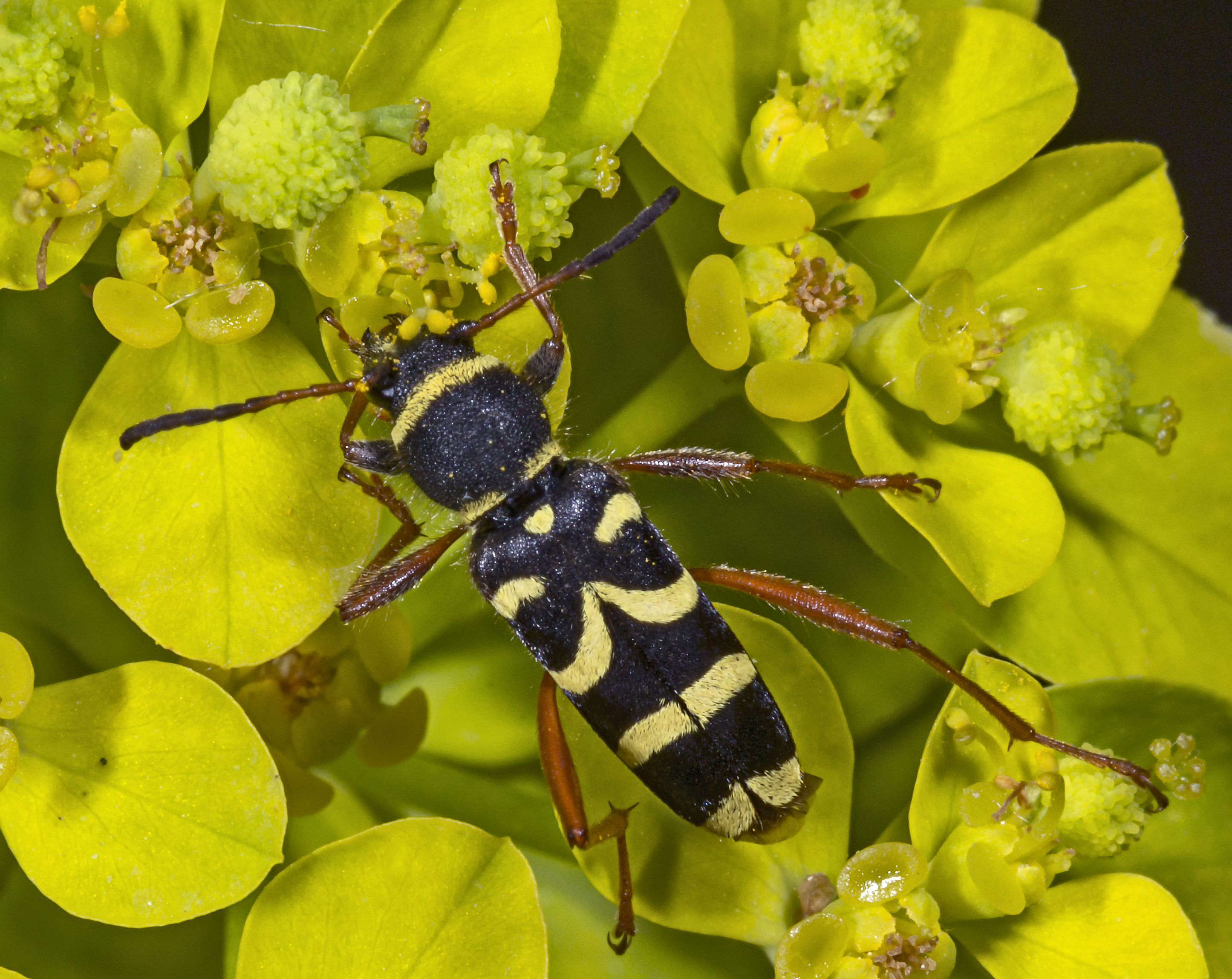 wasp beetle dorsal view on Euphorbia flavicoma ssp.verrucosa.